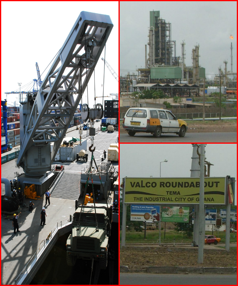 View of Industrial Tema Harbour in Tema.